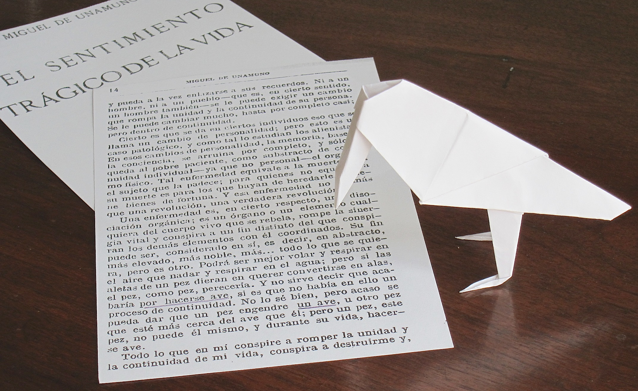 Version of Unamuno's "pájaro sabio" (wise bird) looking at his most famous book.